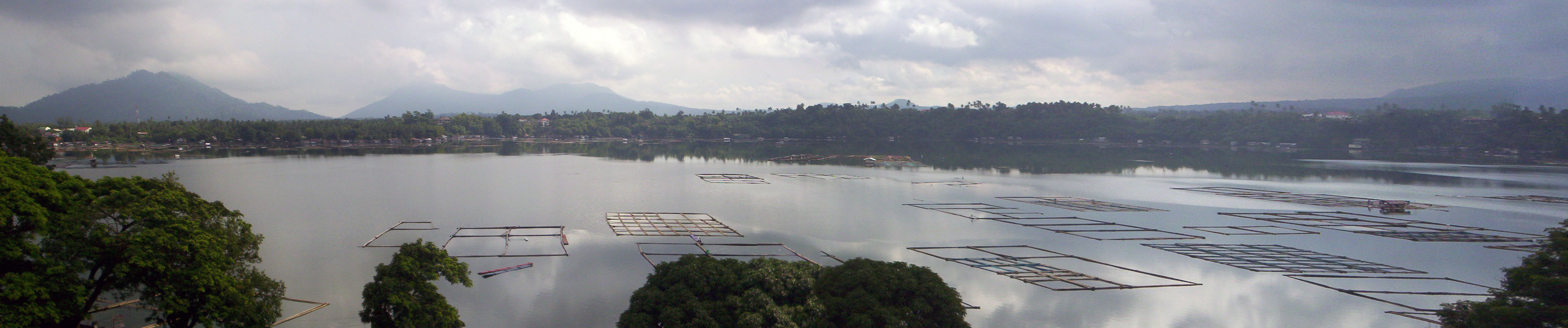 The view of Lake Sampaloc in San Pablo City, Laguna from the Lake Sampaloc view deck. It is the largest and most developed lake in San Pablo's Seven Lakes wherein fishing and recreational activities take place.